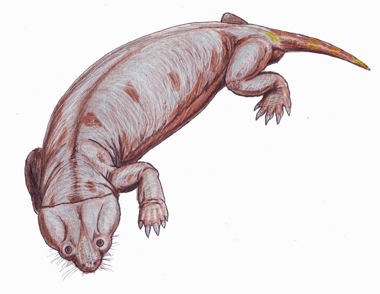 Cistecephalus reconstruction